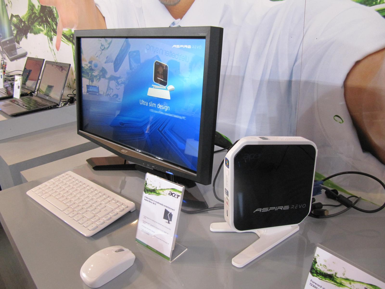 Acer Aspire Revo Nettop and a TFT display